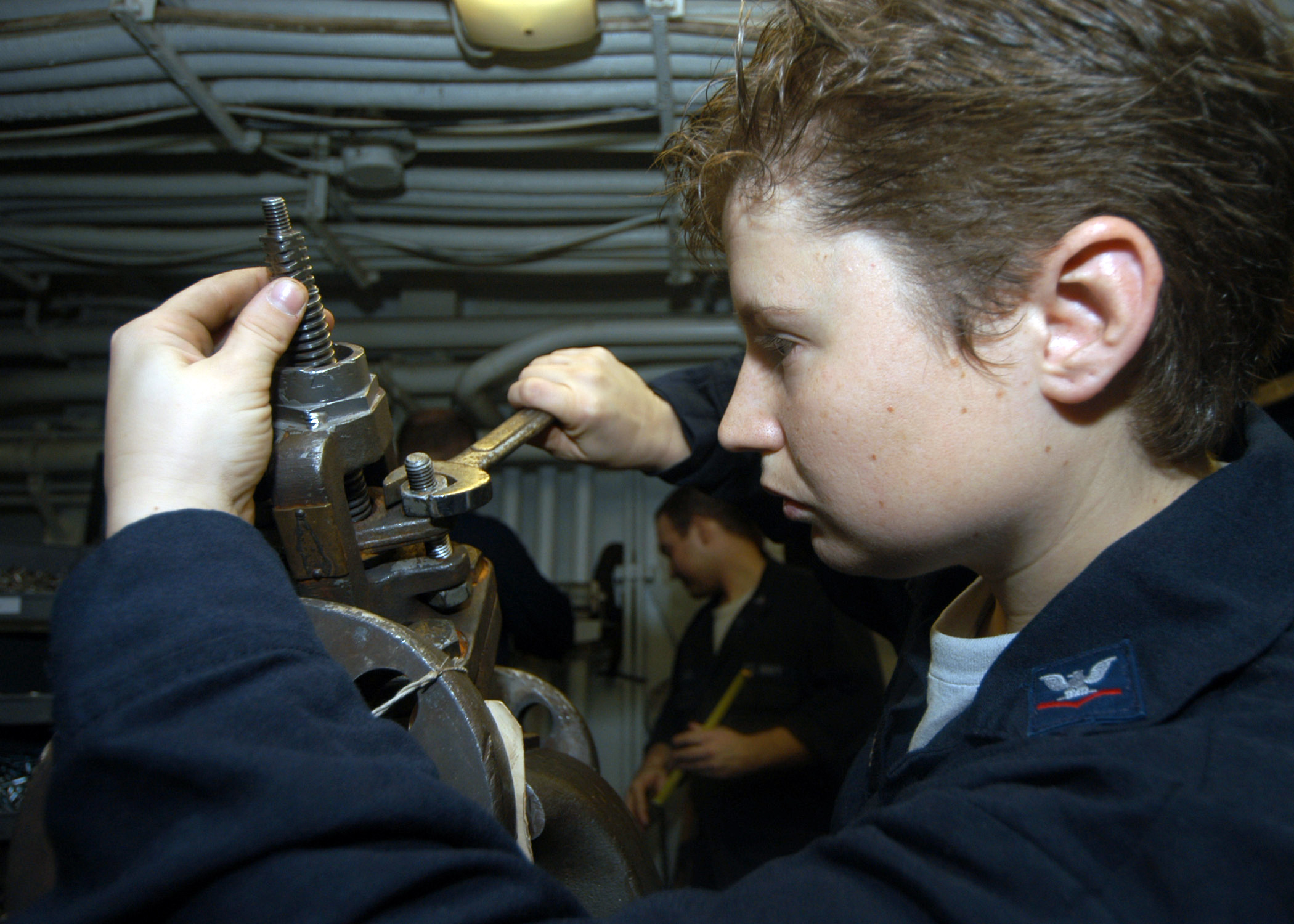 Arabian Gulf (Sept. 16, 2004) - Machinist's Mate 3rd Class Serina Steph of Oklahoma City, Okla., cleans and inspects a rebuilt bottom blow valve in the boiler repair shop aboard the conventionally powered aircraft carrier USS John F. Kennedy (CV 67). The functioning valve blows sediment out of the bottom of boilers, helping in the cleaning process. Kennedy and embarked Carrier Air Wing Seventeen (CVW-17) are currently on a deployment in the 5th Fleet area of responsibility (AOR) in support of Operation Iraqi Freedom (OIF). Units in the Kennedy Carrier Strike Group are working closely with Multi-National Corps-Iraq and Iraqi forces to bring stability to the sovereign government of Iraq. U.S. Navy photo by Photographer’s Mate Petty Officer 3rd Class Monica R. Nelson (RELEASED)